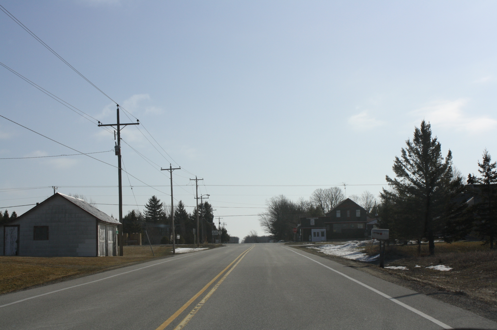 Looking east at the sign for Peninsula Center, Wisconsin.